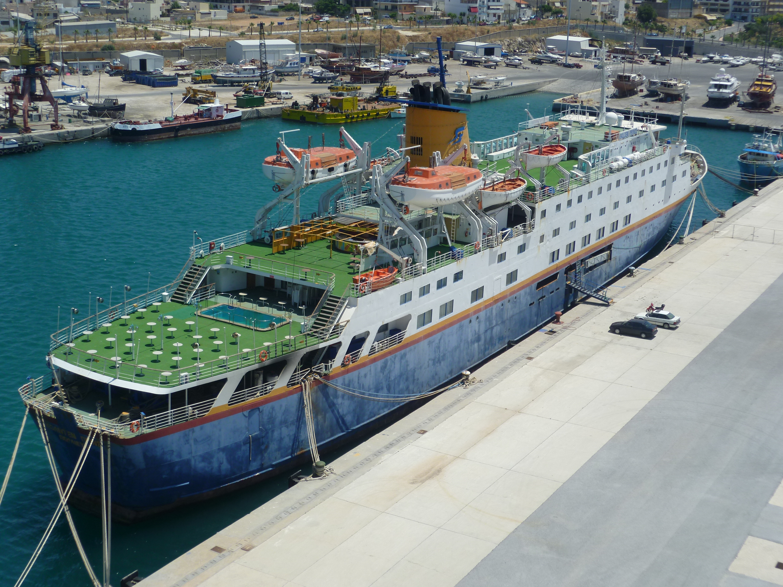 Golden Prince at Heraklion, 5 July 2011